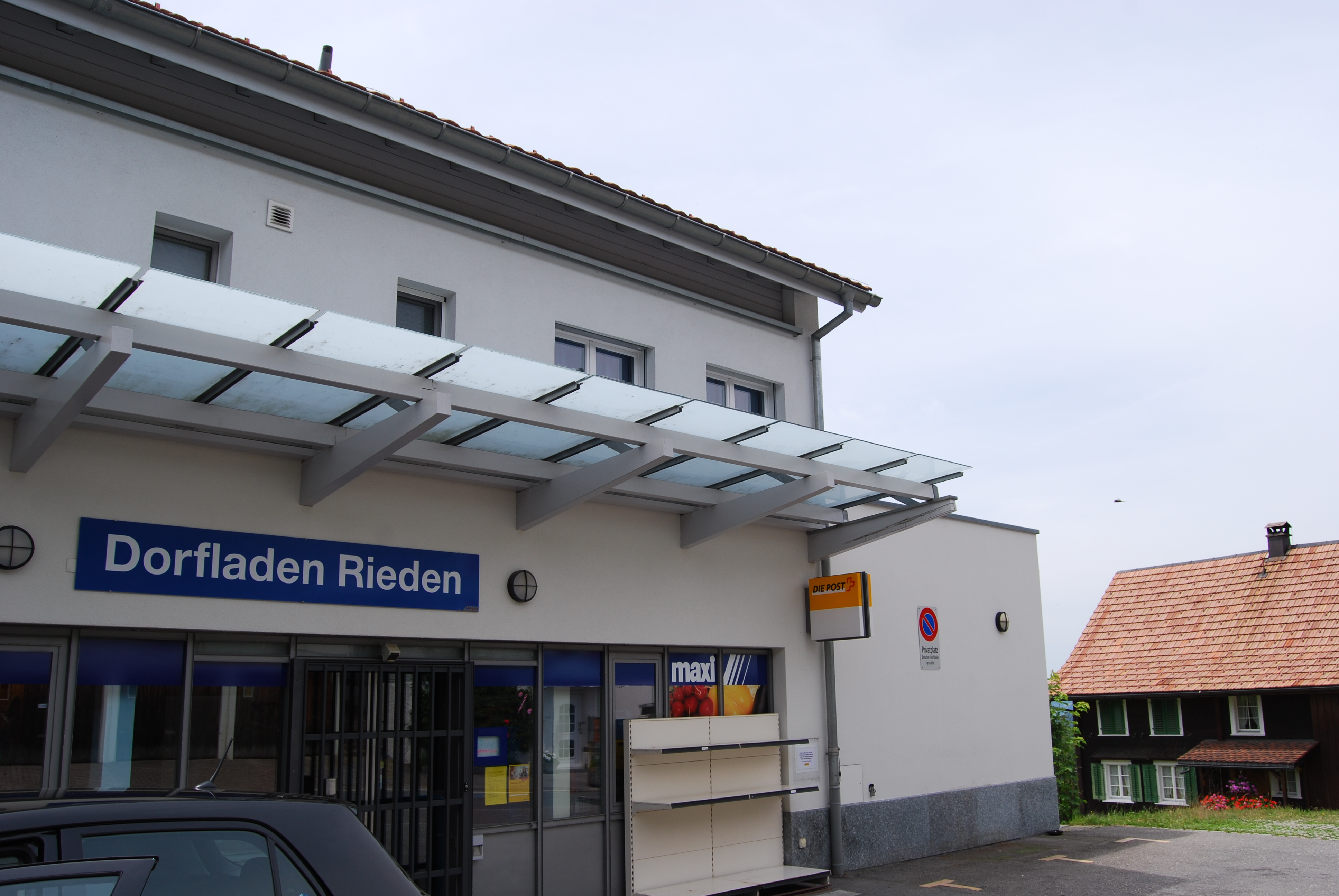 Rieden, canton of St. Gallen, SwitzerlandEsperanto: Rieden, Kantono Sankt-Galo, Svislando